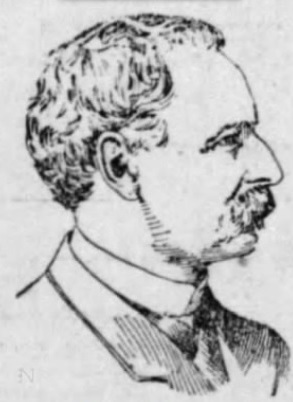 Abner Taylor (Illinois Congressman)